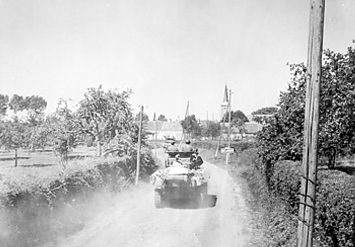 Leaving a cloud of dust behind them, American armoured forces race through Ballon in pursuit of the retreating Germans as the Falaise Gap narrows with American and British forces closing on both sides. Approximately 60,000 German prisoners besides thousands of German dead were trapped in the Falaise pocket